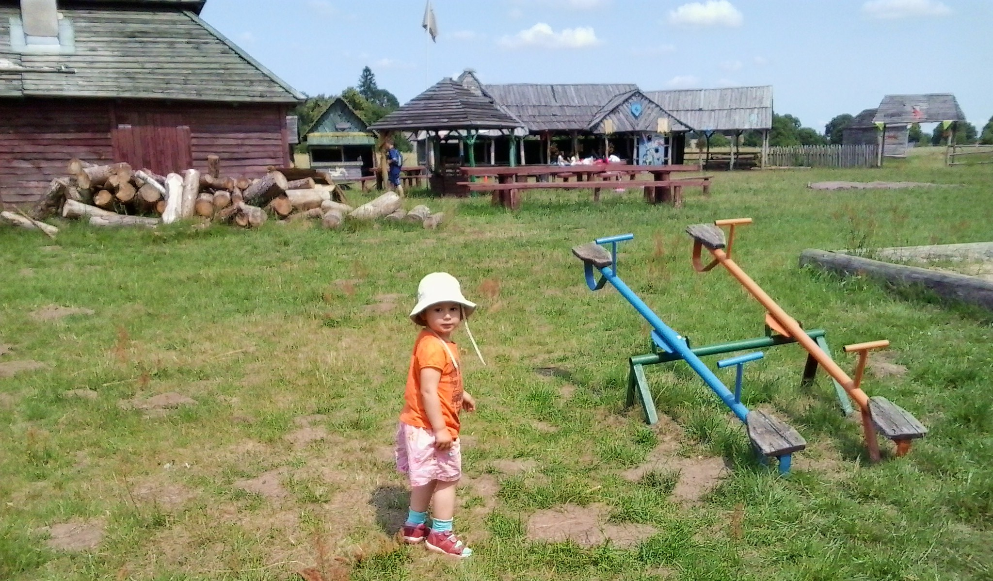 Hobbits Village. Sierakowo Sławieńskie.